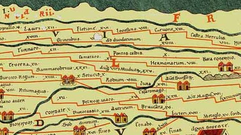 Table of Peutinger detail (Conradi Milleri's copy, 1887-1888) centered on Casaromago (beauvais) and showing Sammarobriva (Amiens), Cenabo (Orleans), Castrum Herculis (Arnhem) etc.